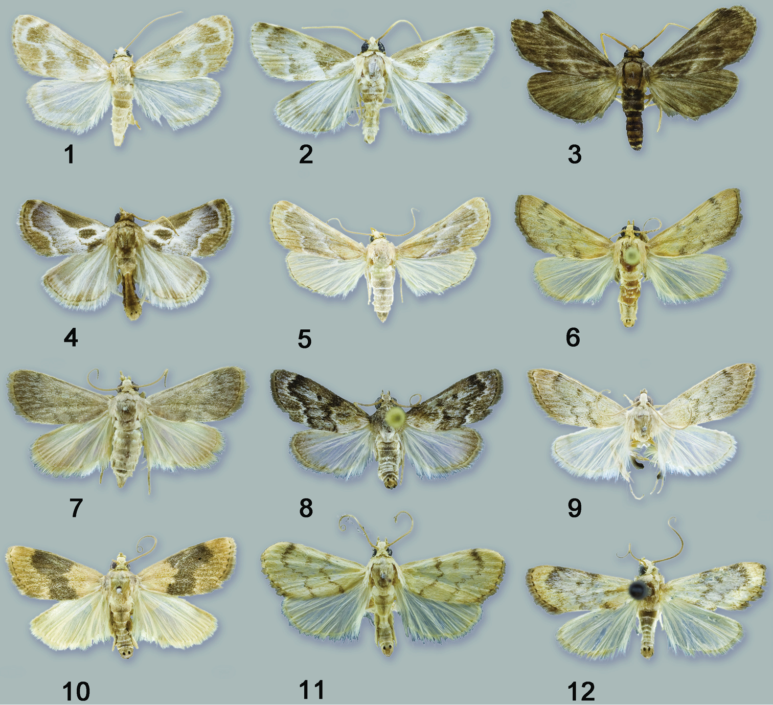 Habitus of Schacontia adults. 1 Schacontia medalba male, Peru, 1883, “Boniti P., Peru, Jan. 7. 83” 2 Schacontia chanesalis male, Mexico, Becker 68741, Tam El Ensino 250 m, 4–13.viii.1988, V.O.Becker Col. 3 Schacontia umbra male paratype, “Col. Becker 100503, Ecuador: Past. Mera, 1300 m, xii 1992, V.O. Becker Col, Schacontia n. sp. #3 det. M.A. Solis” 4 Schacontia speciosa male holotype, “Col. Becker 65271, Brasil, RJ Marica, 5 m, 11.x.1985, V.O. Becker Col. 5 Schacontia ysticalis Sirena, Corcovado Nat. Pk., Osa Penin., Costa Rica, 19–27 Mar 1981, DH Janzen, W. Hallwachs 6 Schacontia themis Venezuela, Guarico, Hato Masaguaral, 45 km S Calabozo, 8.57N, 67.58W, Galry For #20, 75 m, 13–16 May 1988, uv lt., M. Epstein & R. Blahnik 7 Schacontia rasa male holotype, Col. Becker 110514, Mexico, Tam San Fernando, 50 m, 28.vi.1997, V. O. Becker Col. 8 Schacontia nyx “Venezuela: Guarico, Hato Masaquaral, 45 km S Calabozo, 8.57N, 67.58W, Galry Forest #20, 75 m, 13–16 May 1988, uv lt., M. Epstein & R. Blahnik 9 Schacontia clotho male holotype, Col. Becker 102660, Ecuador, Loja Catamayo 1300 m, 20.xii.1992, V.O. Becker Col., Genitalia 1287 10 Schacontia lachesis male, “Col. Becker 55439, Brasil, RJ Arrai al do Cabo, 50 m, 29.i.1985, V.O. Becker Col.” 11 Schacontia lachesis male, “Bolivia, Santa Cruz, Puerto Suarez, 150 m, Nov 1908, J. Steinbach, CMNH Acc. 3758” 12 Schacontia atropos male holotype, “San Estaban, Carabobo, Venez., Dec. 1–20 1939, Pablo J. Anduze.”